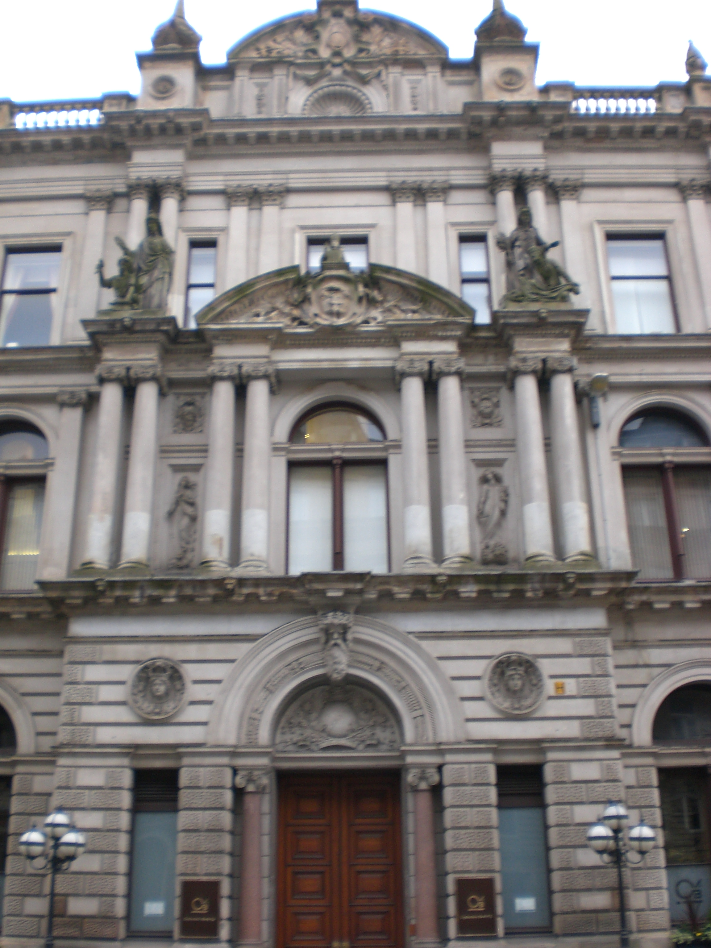 Photo of the headquarters of the Clydesdale Bank PLC in St Vincent Place, Glasgow